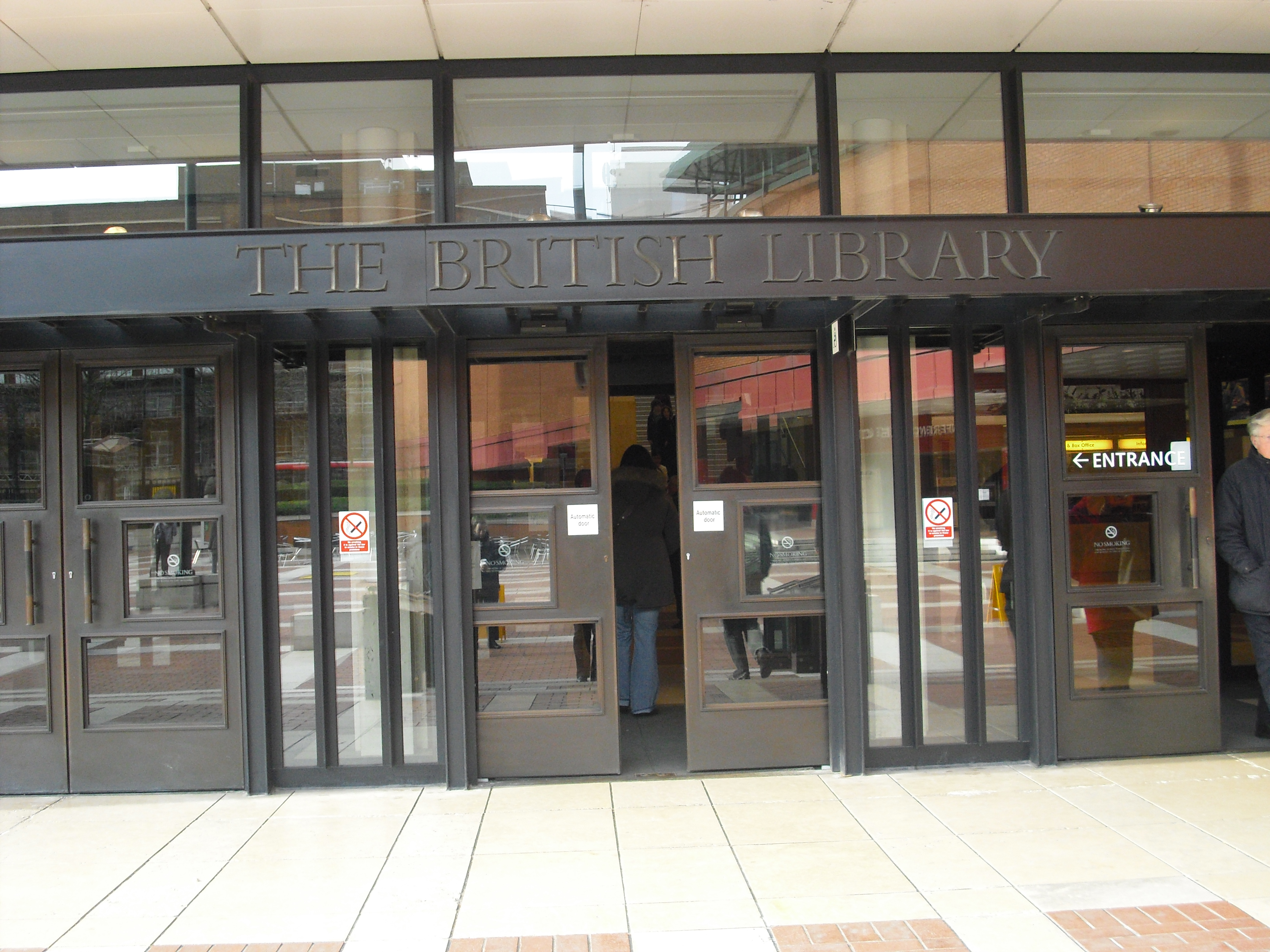 the main entrance of the British library1 3 3 2010